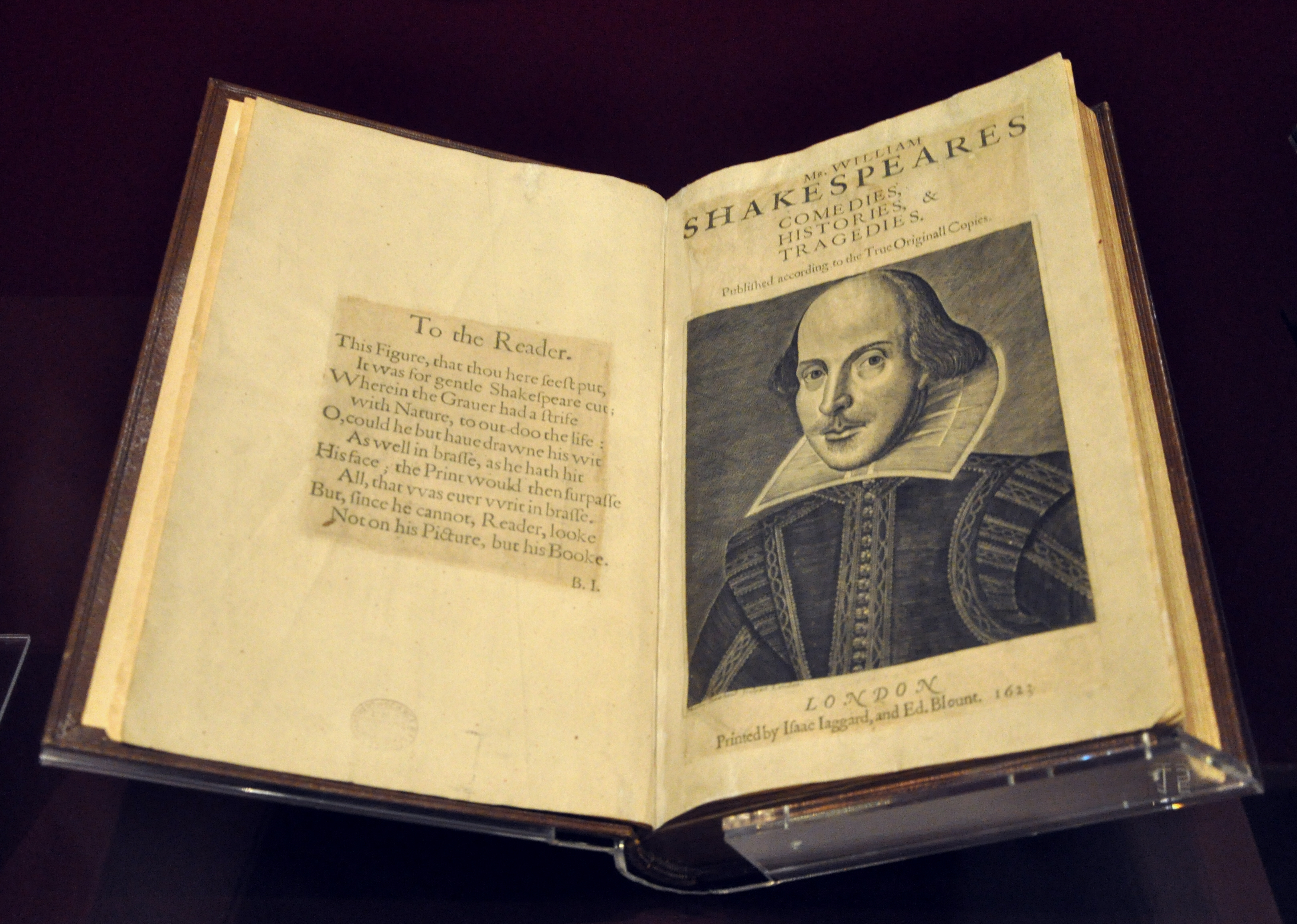 First Folio (Mr William Shakespeare's Comedies, Histories & Tragedies), London 1623 Victoria and Albert Museum, London, National Art Library, cat. no. Dyce 25.F.63 (seemingly made up from different copies)